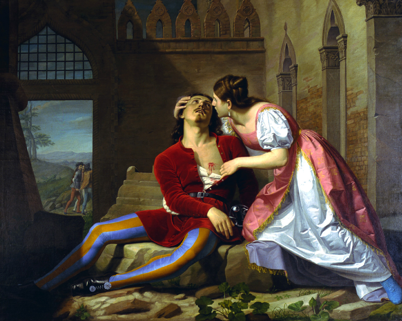 death of Bonifacio in Imelda's arms. scene from Donizetti's opera Imelda de' Lambertazzi, derived from a tragedy by Gabriele Sperduty (Naples, 1825) and from old bolognese chronicles.